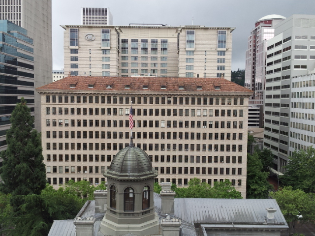 The Pacfic Building, in Portland, Oregon, viewed from the American Bank Building. The cupola of the Pioneer Courthouse is in the foreground, and in the background (behind the tile-roofed Pacific Building) is the Hilton Executive Tower (which was renamed the Duniway Hotel in 2017, but still affiliated with Hilton Hotels).